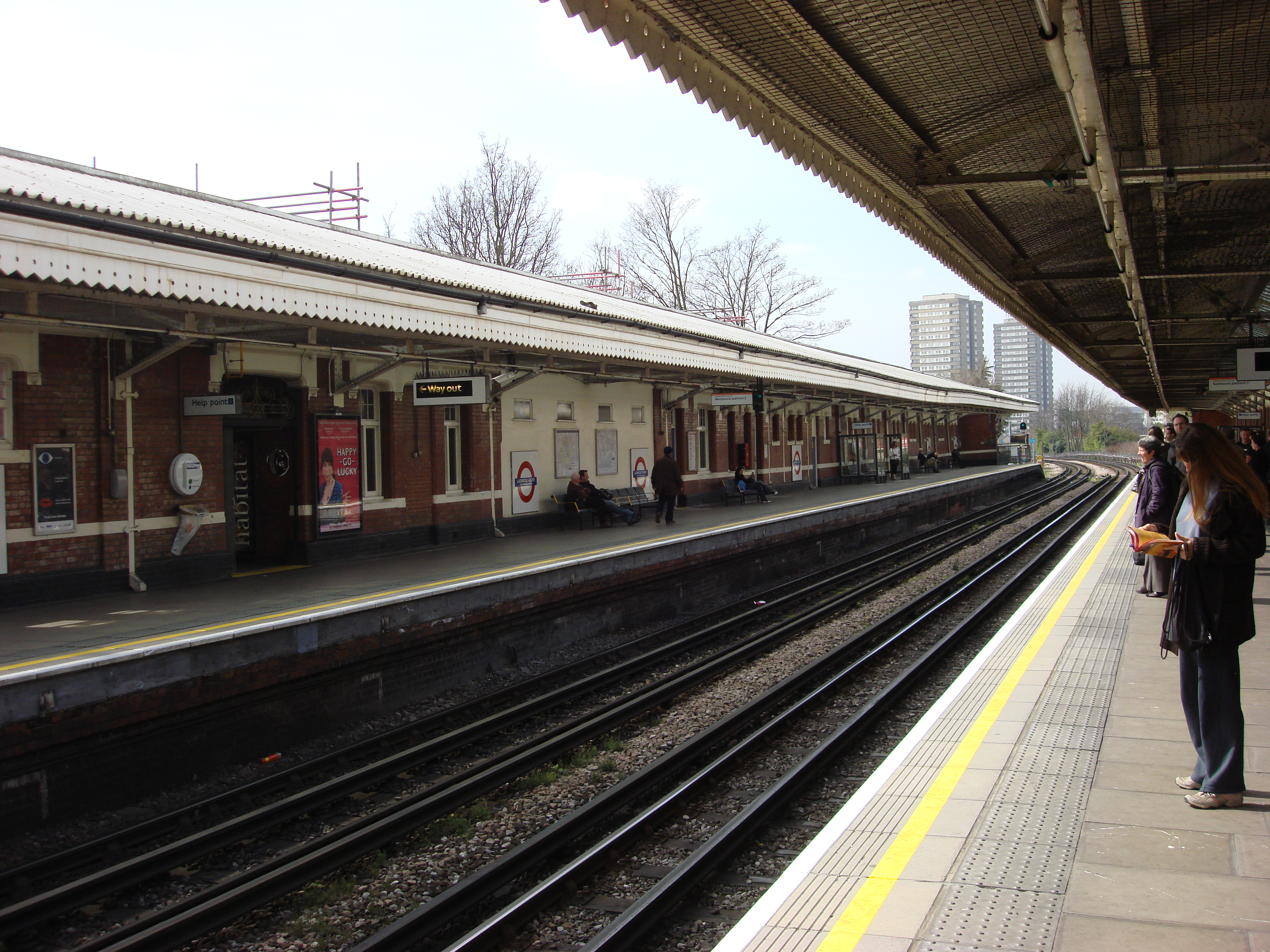 Ladbroke Grove tube station, Taken from the Eastbound platform